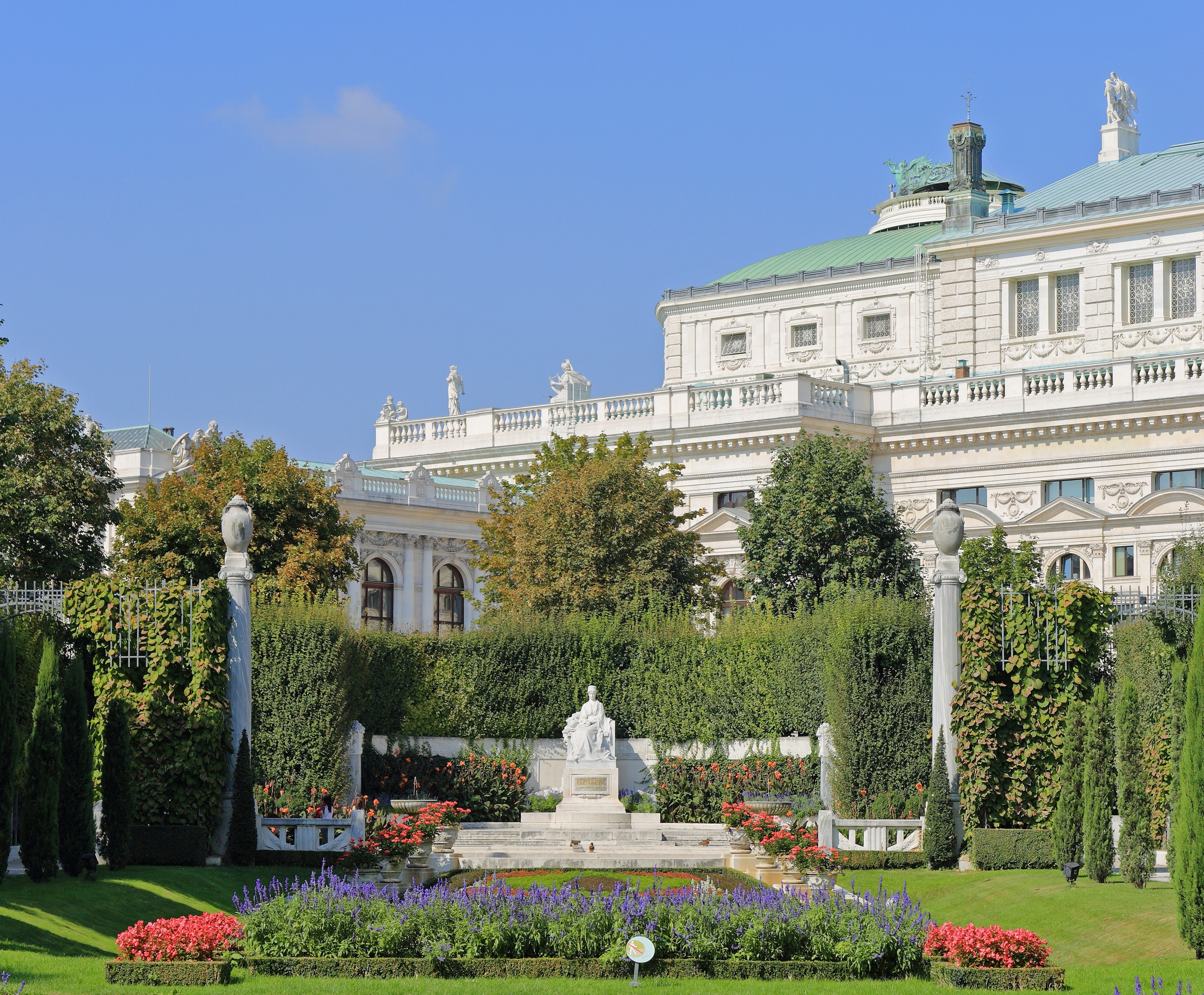 Monument to Empress Elisabeth of Austria (Sisi) in the Volksgarten close to the Hofburg imperial palace in Vienna.